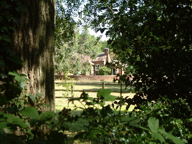 Old House, New Forest. Sir Dudley Forwood, Bt used to live here.